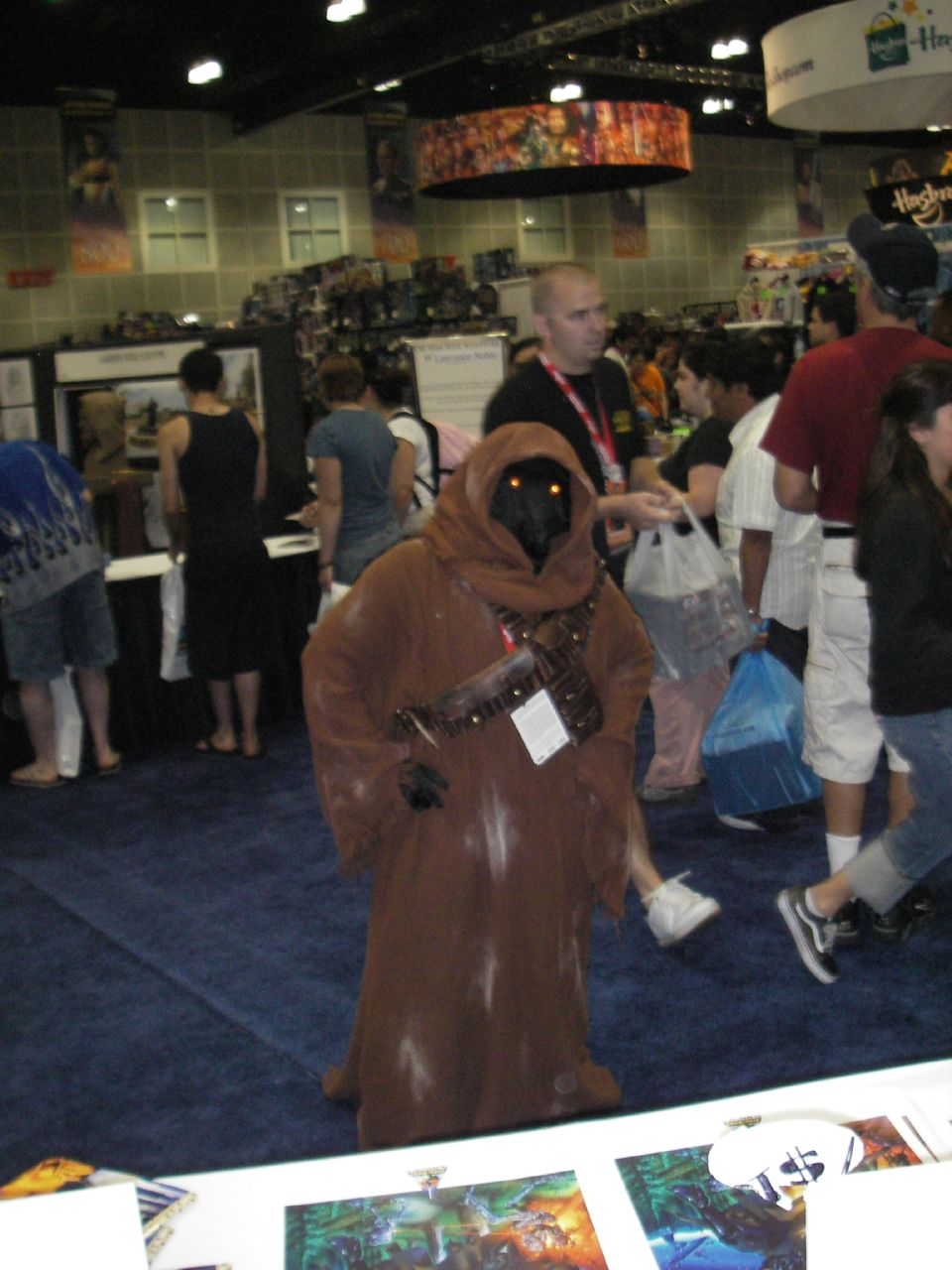 The most misunderstood of all the Star Wars characters (Star Wars Celebration, California, USA) Ken Steacy invited me to California to help him with his Star Wars Celebration 4 Booth. We sold prints and sketches.